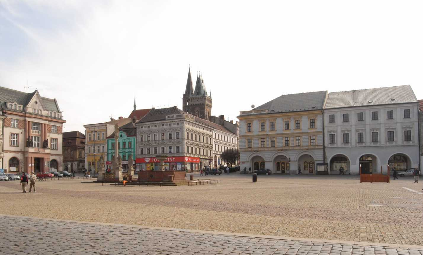 Kolín, market-place (Czech Republic)